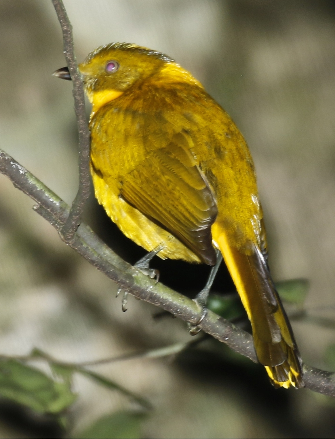 Mount Hypipamee Nat’l Park - Australia